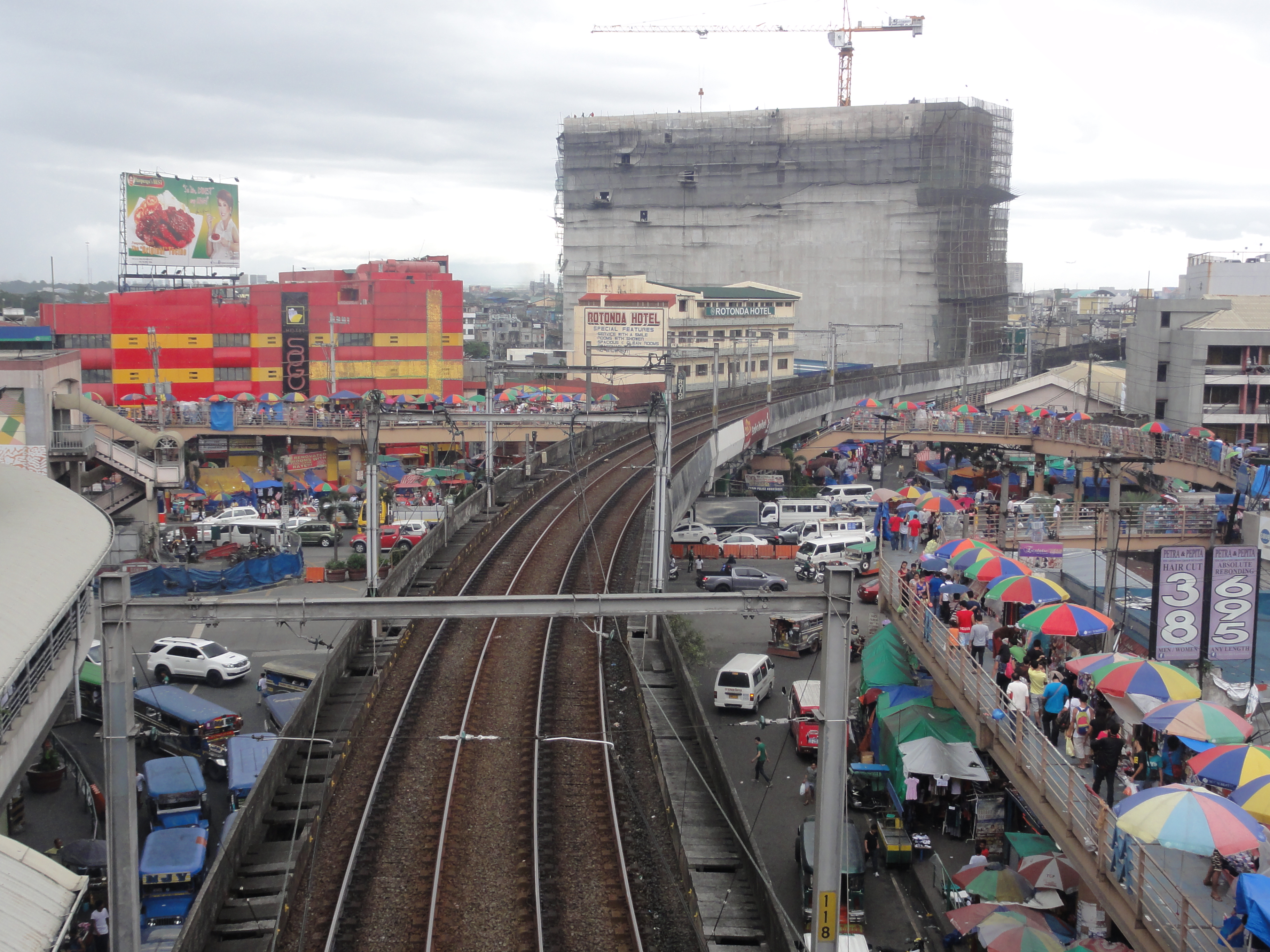 LRT-1 rails near EDSA Station, Pasay City